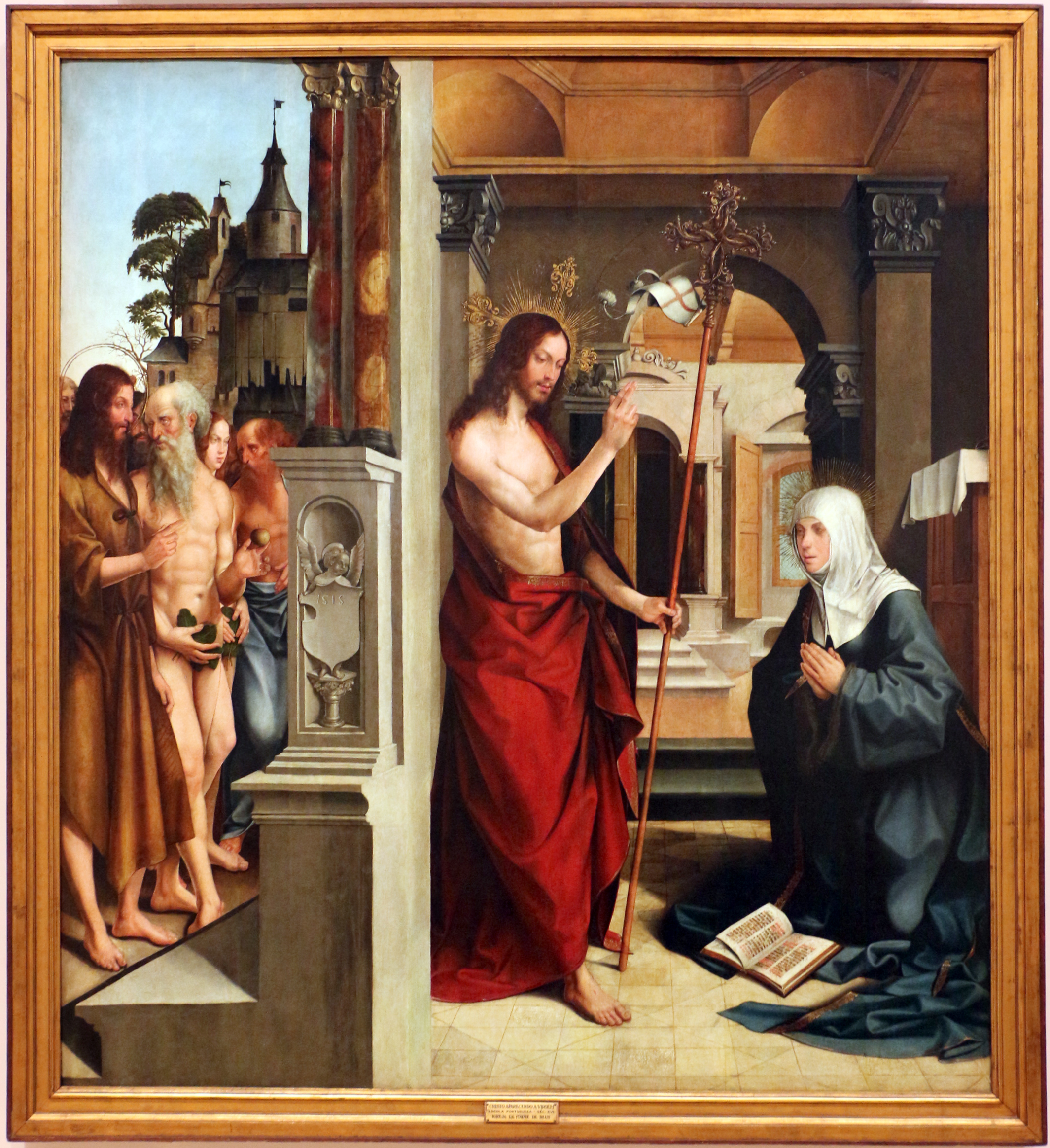 Políptico do Convento da Madre de Deus